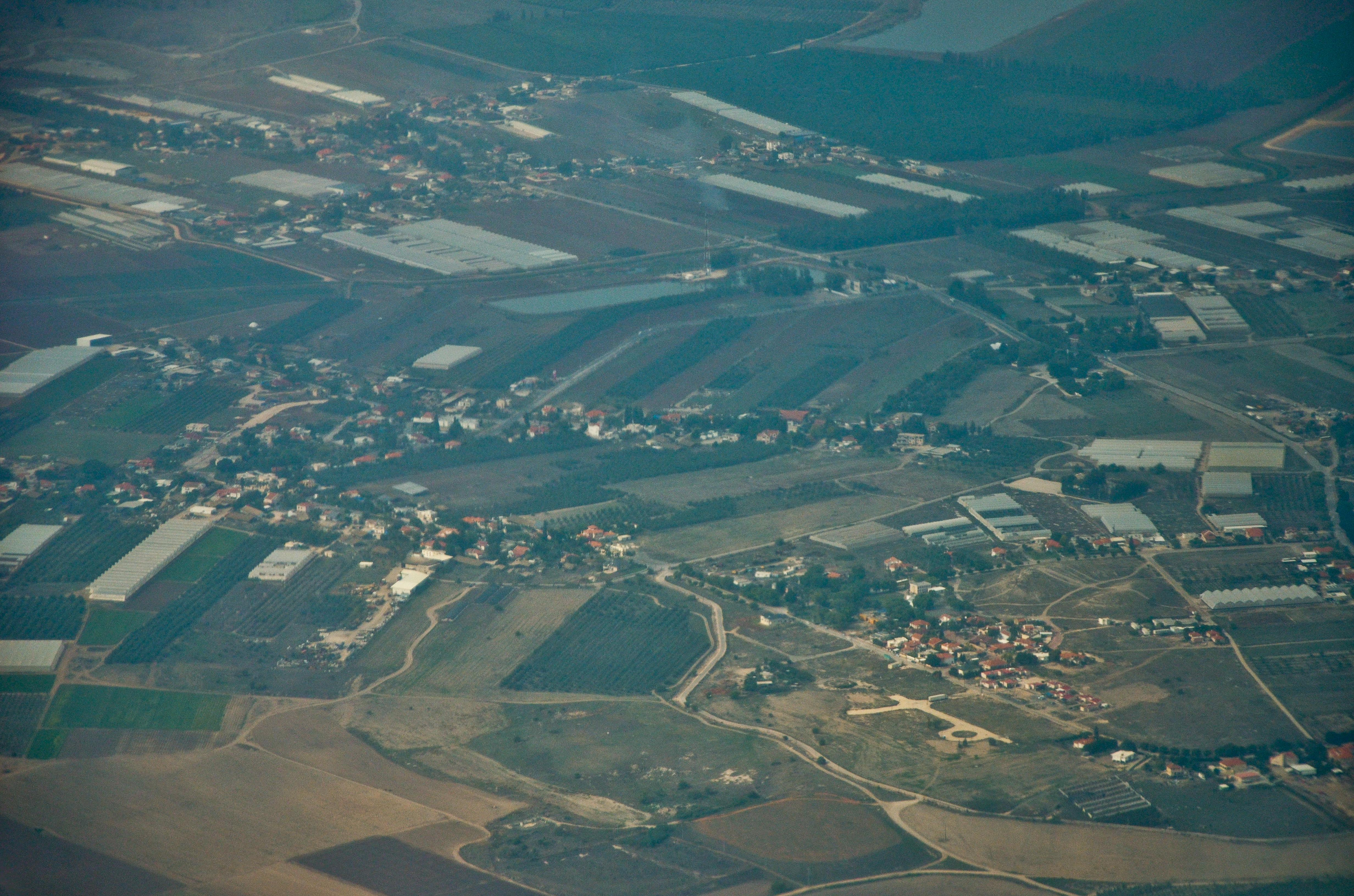 Shot taken from plane flown by Ilan Maytal